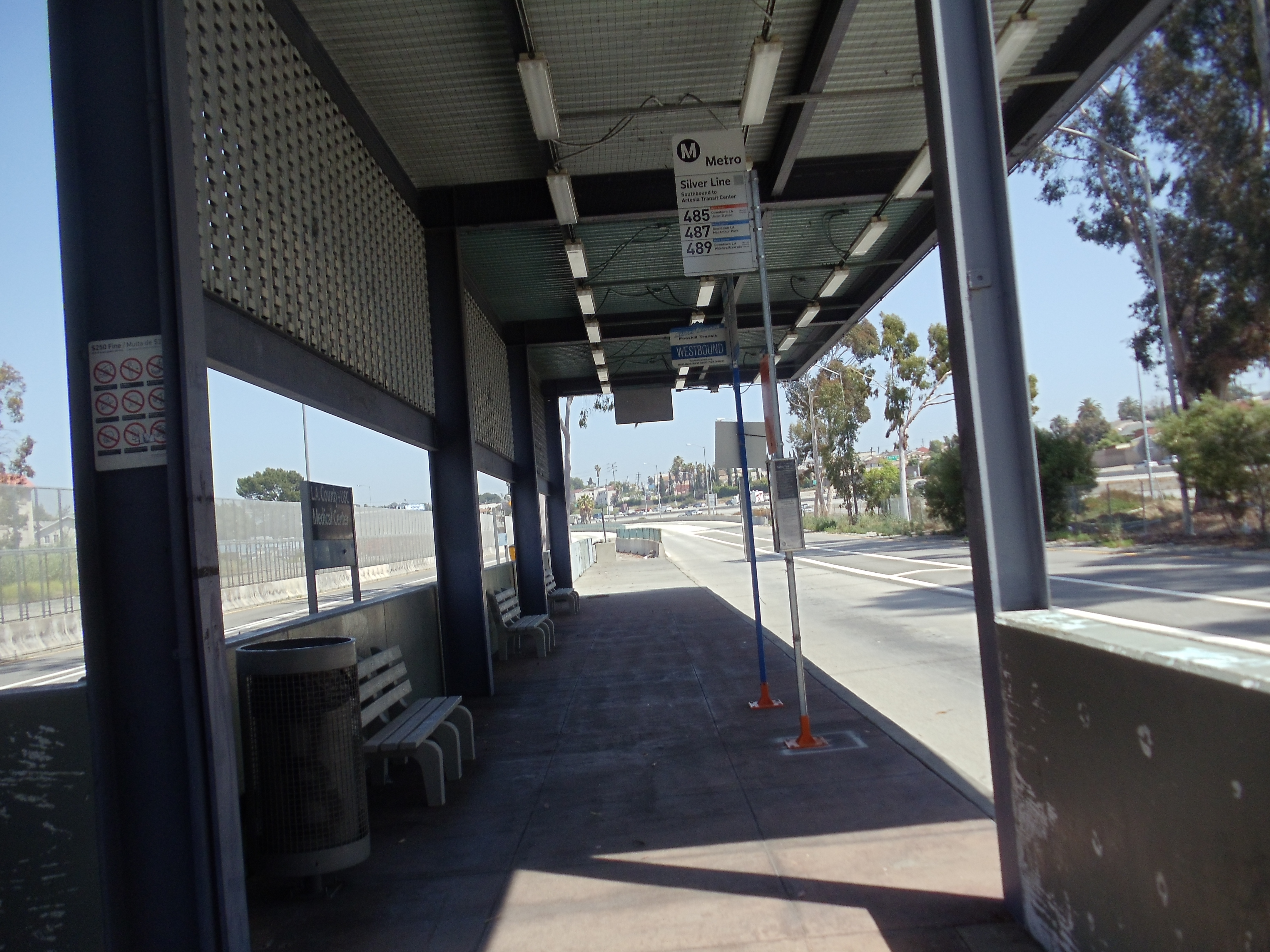 Westbound platform.